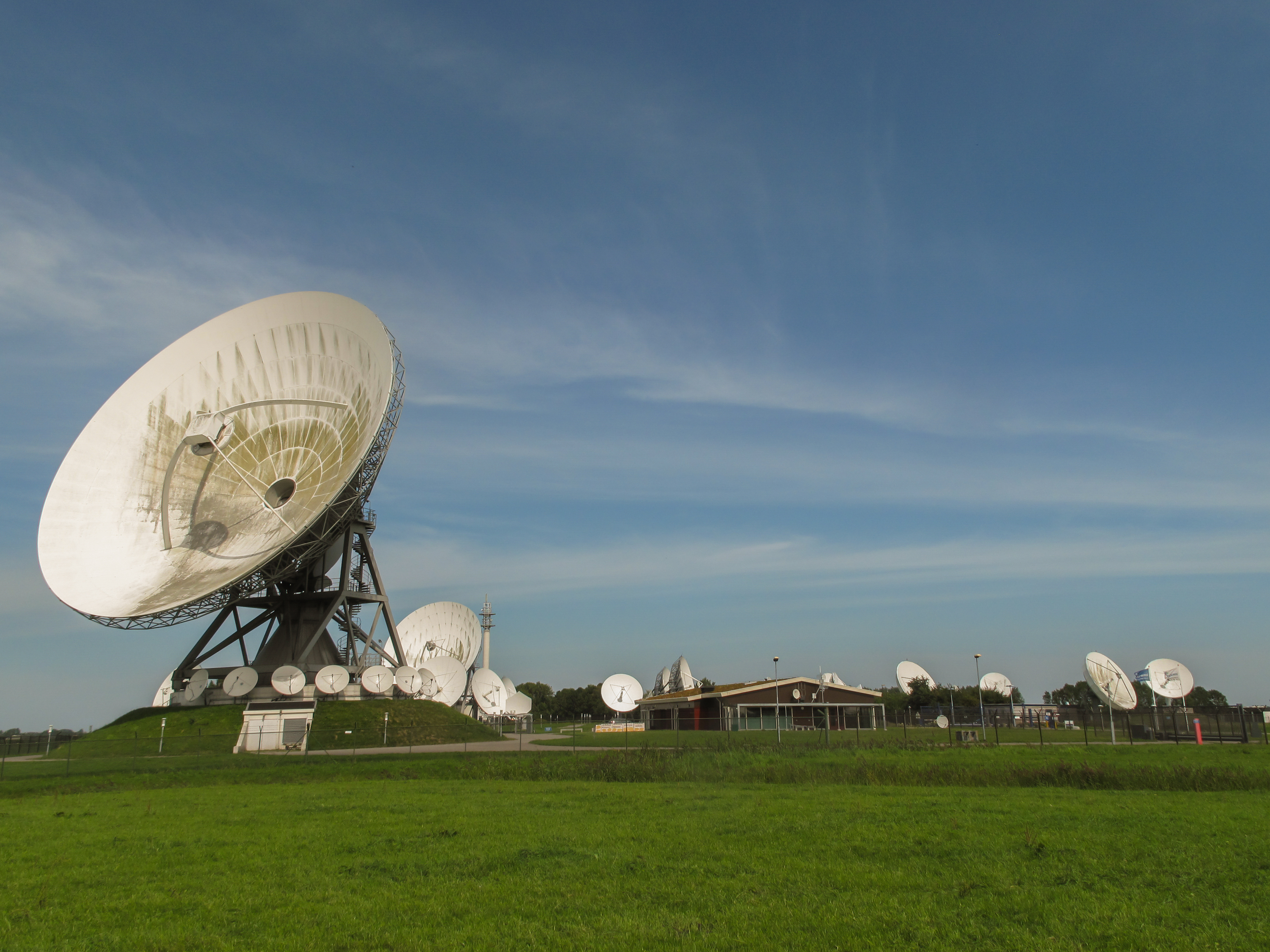 between Burum and Kollum, dish antennas: It Greate Ear